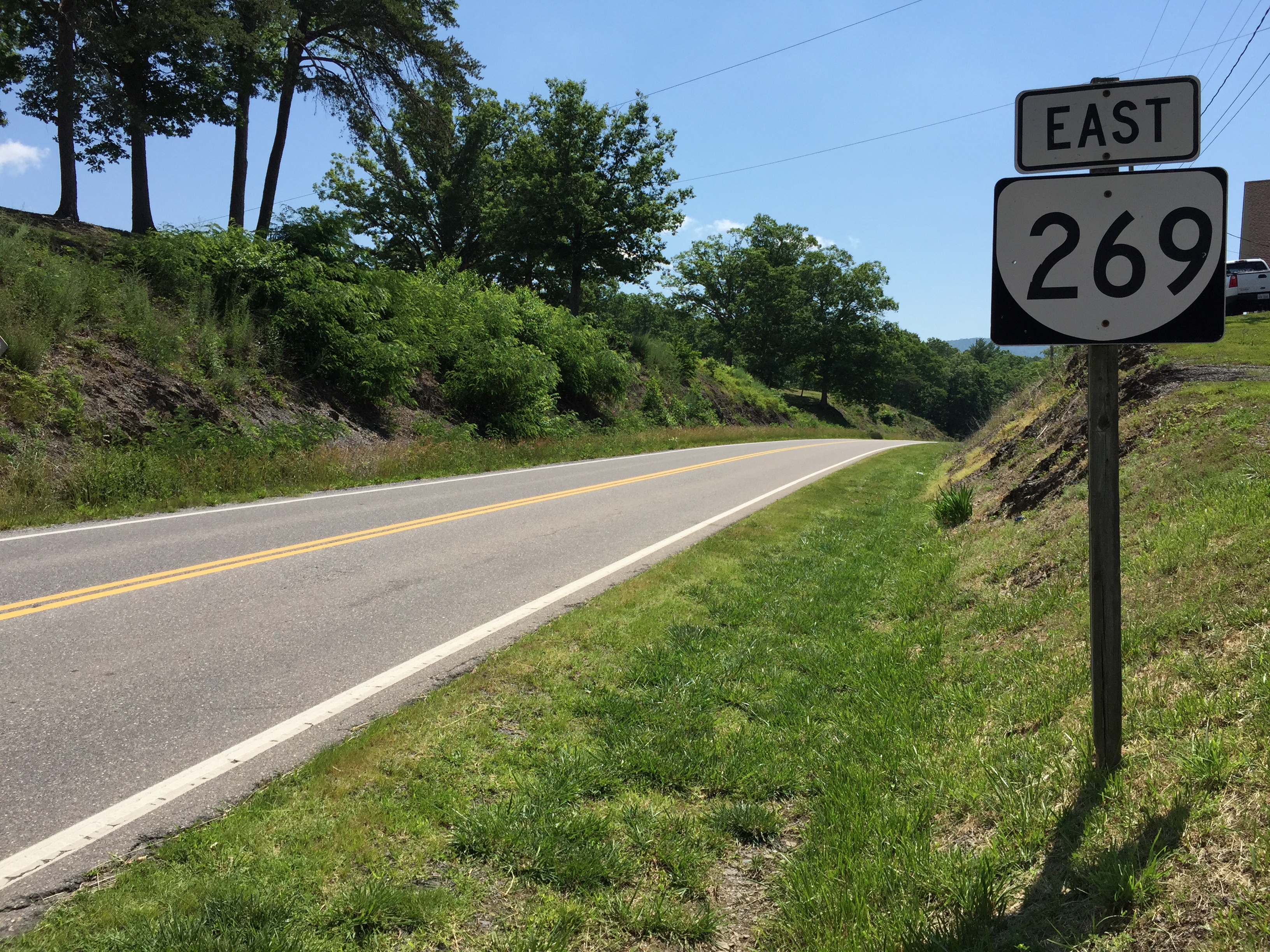 View east along Virginia State Route 269 (Longdale Furnace Road) at Maiden Lane in eastern Alleghany County, Virginia